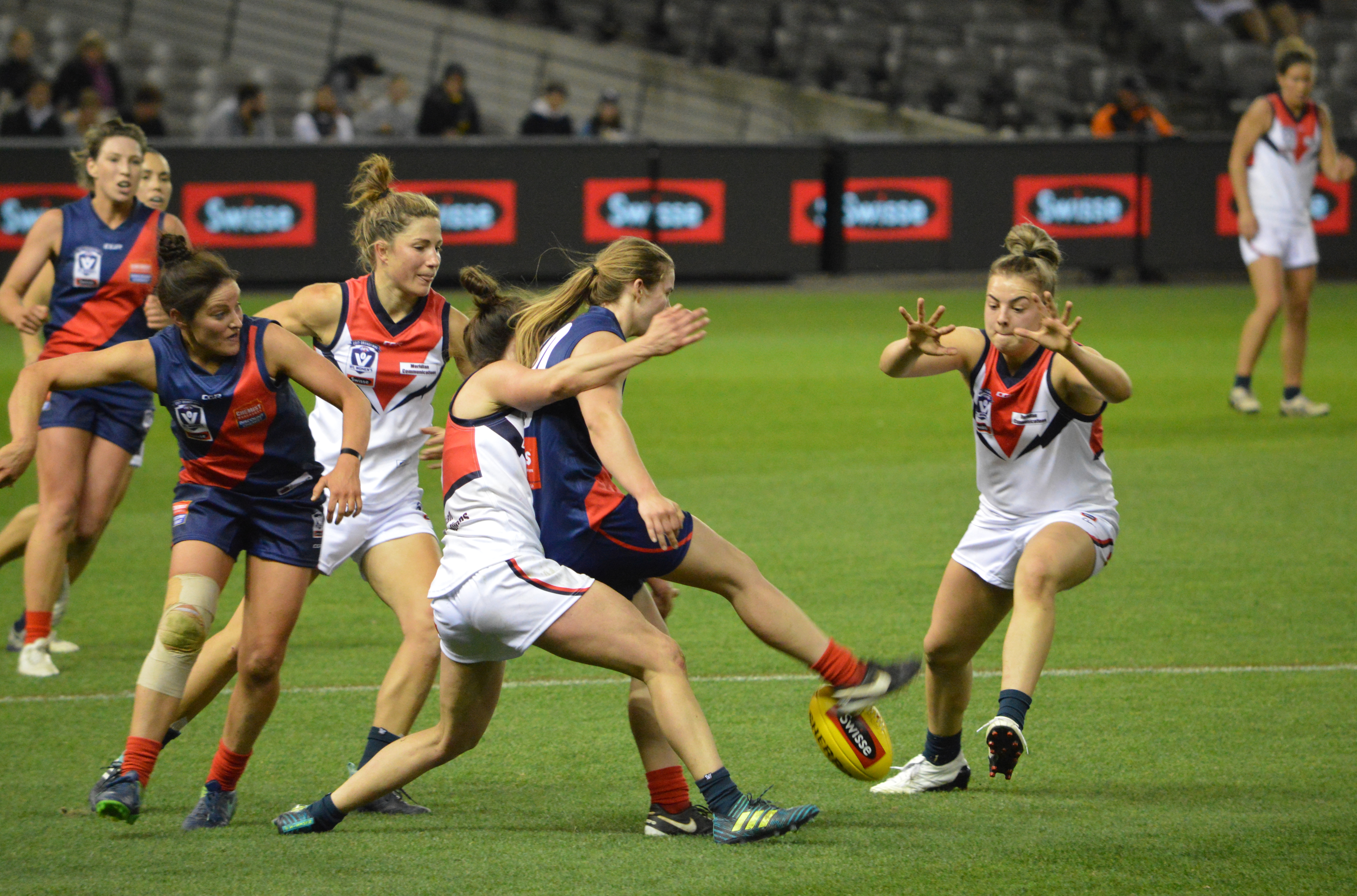 Ebony Marinoff attempts a smother during the 2017 VFL Women's Grand Final.